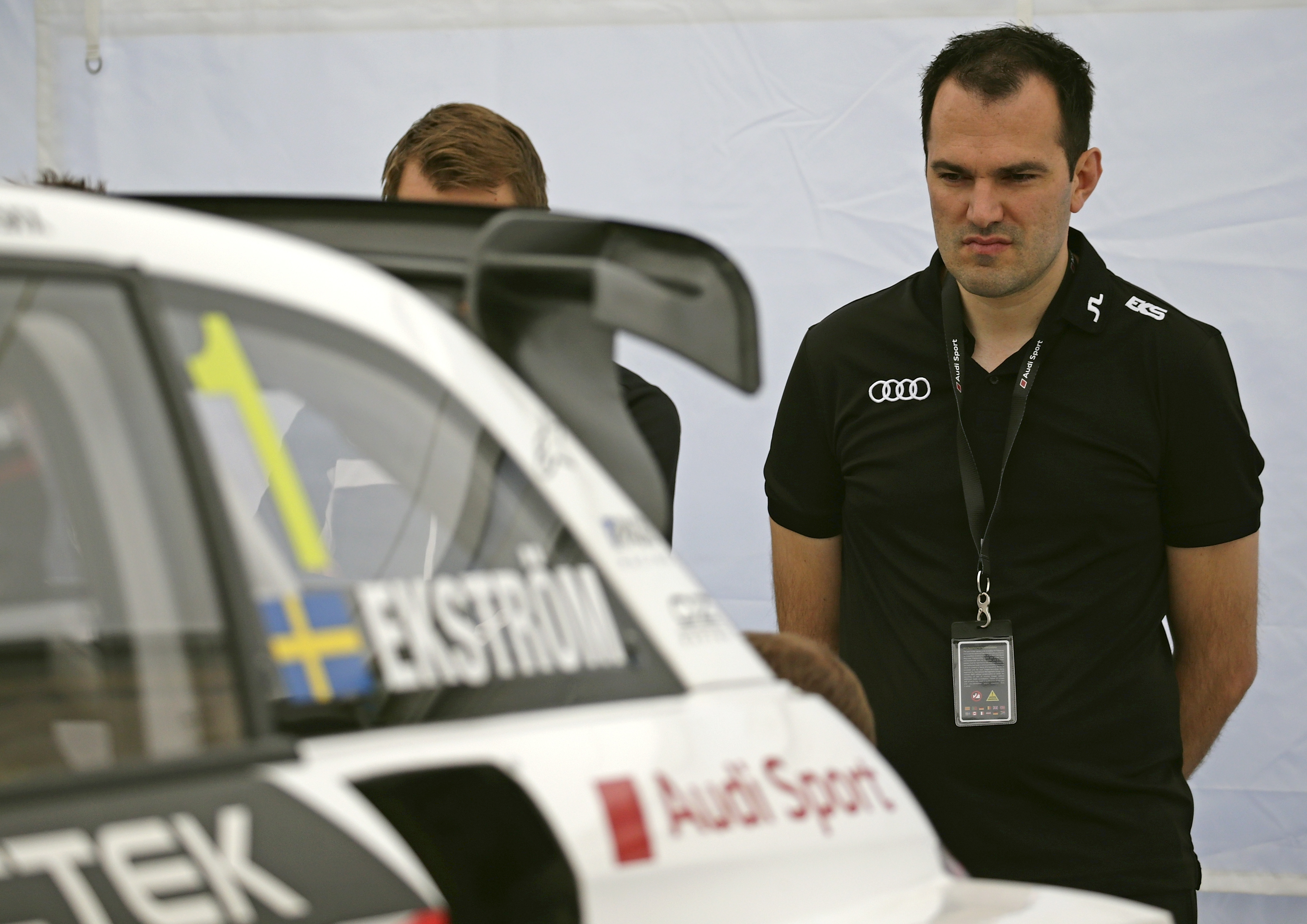 2017 FIA World Rallycross Championship // Round 02, Montalegre // Credit: EKS/Bodo Kraeling